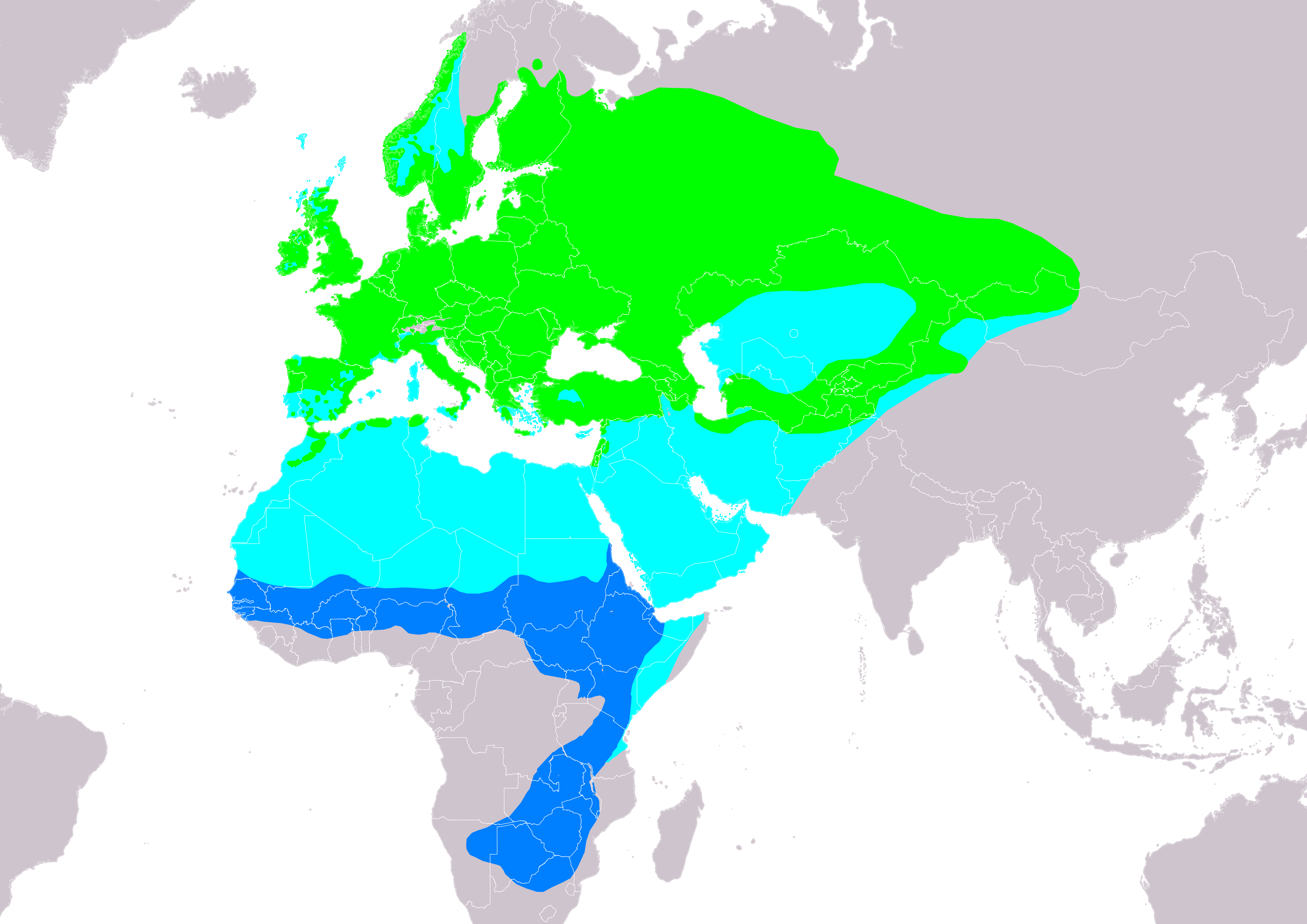 Distribution map of Common Whitethroat (Sylvia communis) according to IUCN 2019.3 (compiled by: BirdLife International and Handbook of the Birds of the World (2019) 2019.); key: Legend: Extant, breeding (#00FF00), Extant, passage (#00FFFF), Extant, non-breeding (#007FFF)